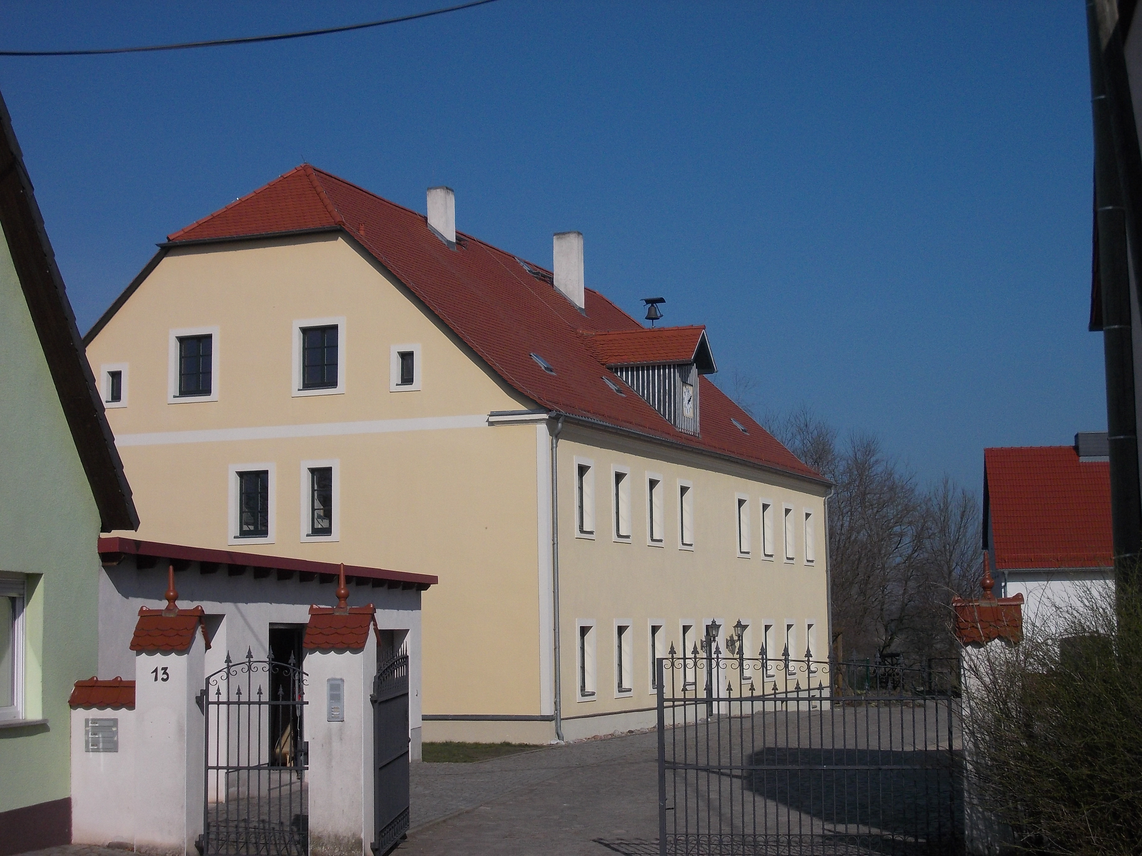 Kranichau manor house (Torgau, Nordsachsen district, Saxony)